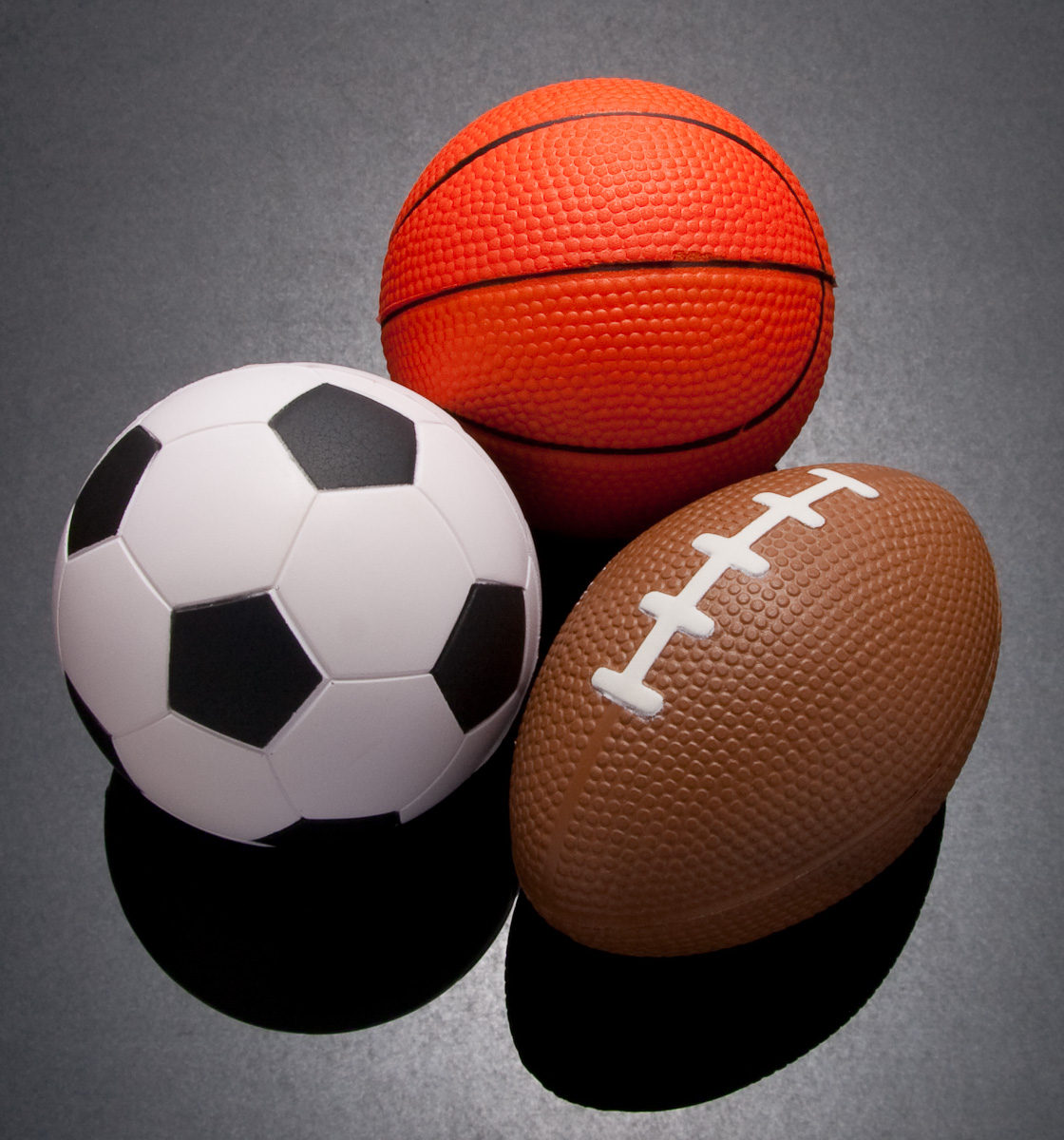 Sport stress balls. Soccer ball, Basketball, American Football.